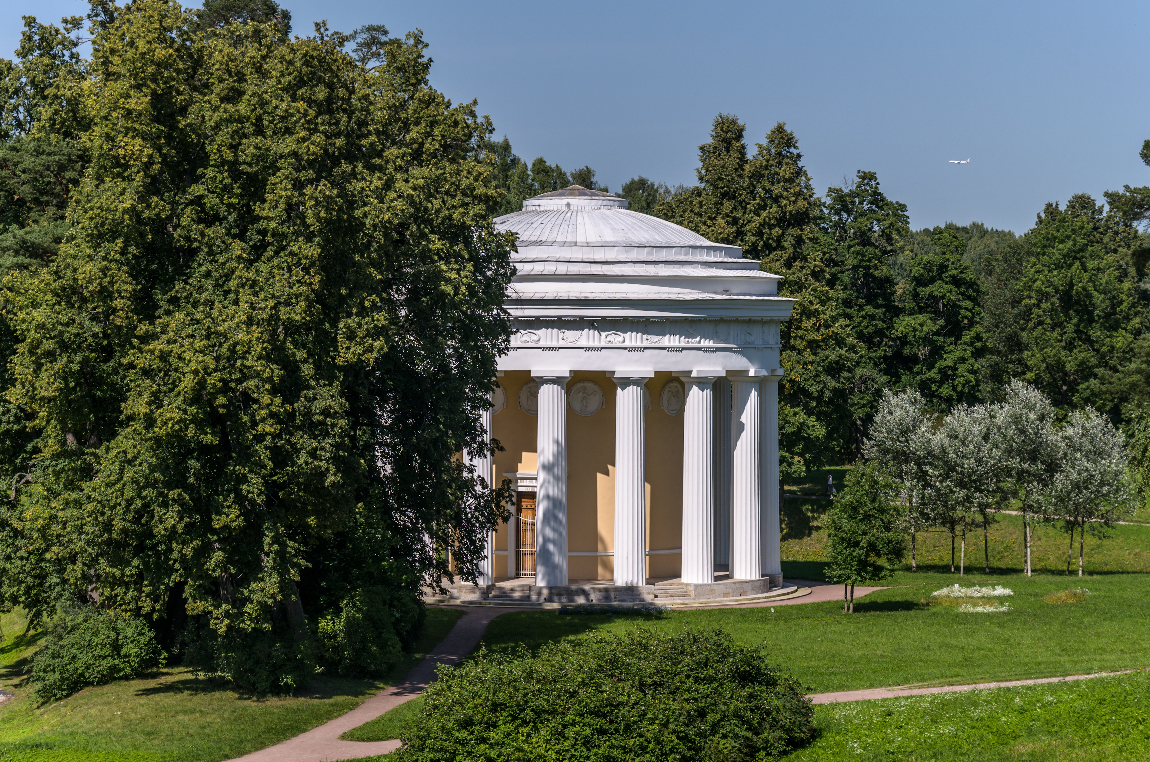 Temple of Friendship in Pavlovsk Park